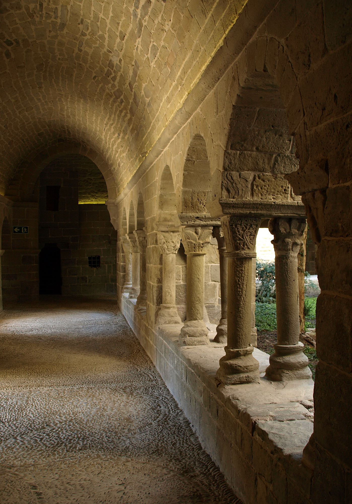 Cloister of Sant Benet de Bages (Bages, España)